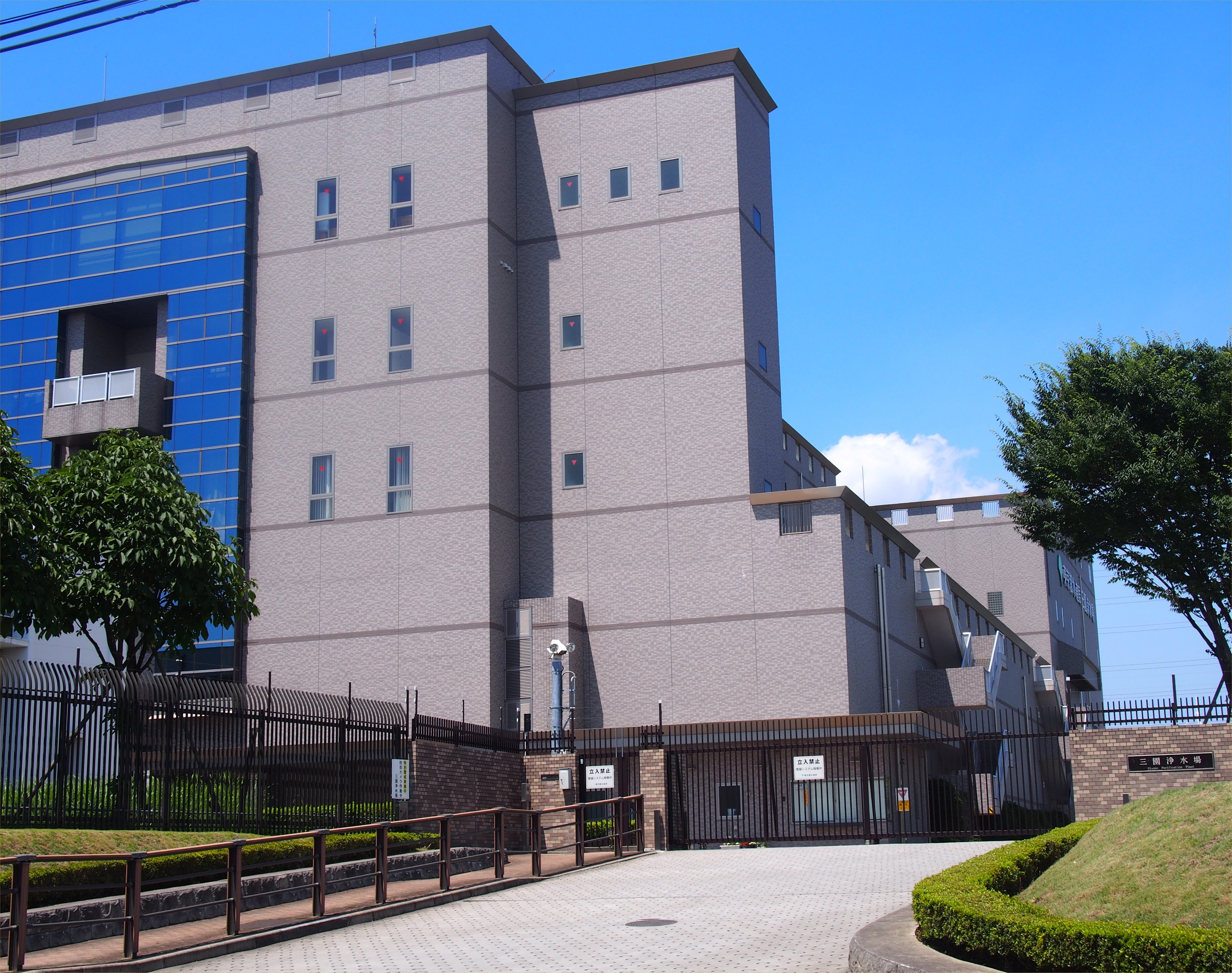 A photo of the entrance of Misono Pourification Plant, Misono,Itabashi-ku,Tokyo,Japan.